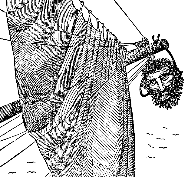 Blackbeard's head hanging from the bowsprit of the sloop Jane